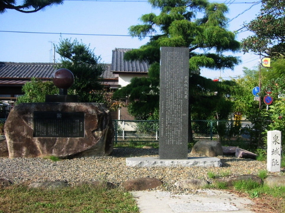 Site of Izumi Domain jin’ya, Iwaki, Fukushima, Japan